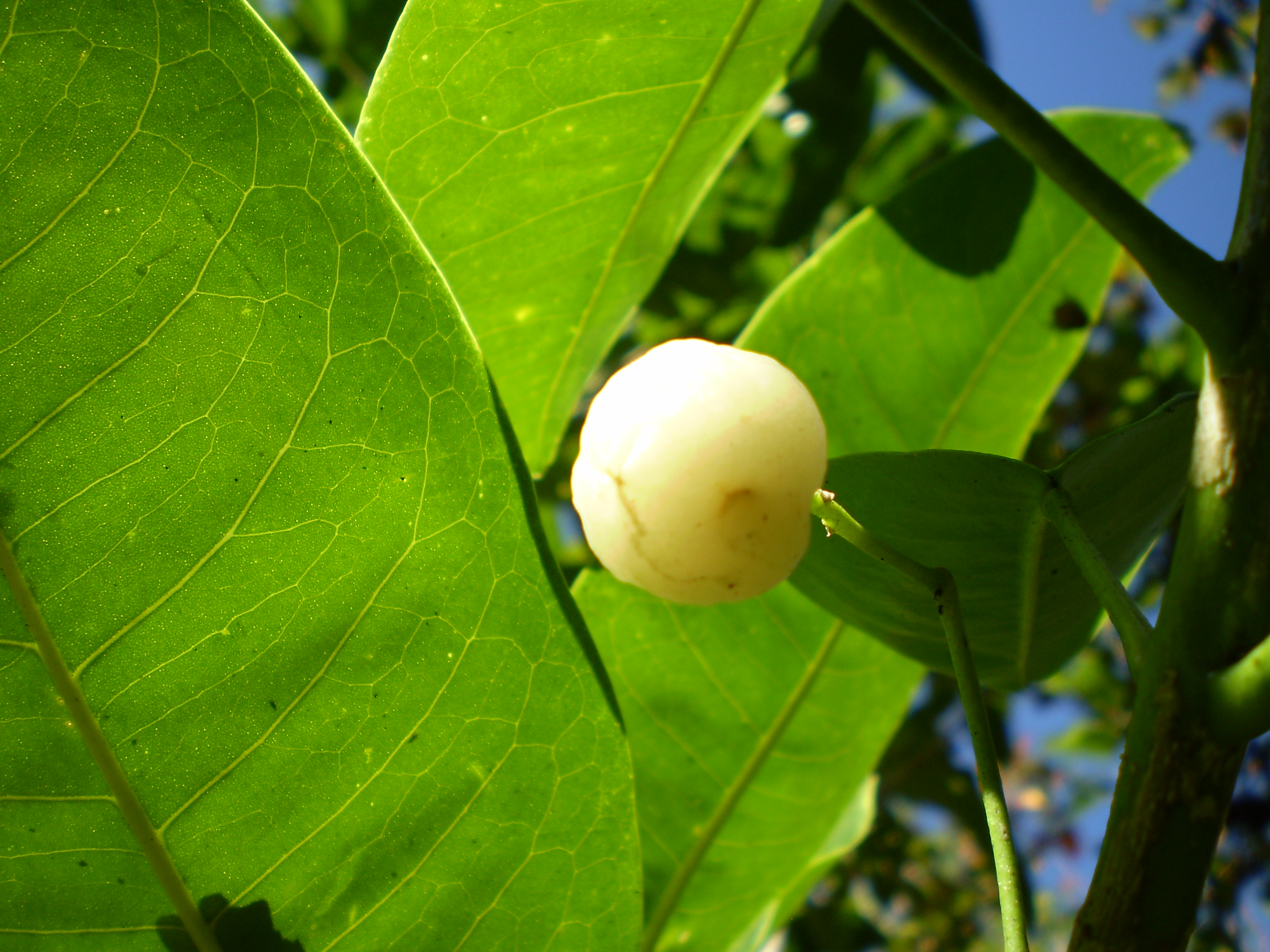 Fruit and leaf of Acronychia acidula, lemon aspen. Cultivated speciman, Northern NSW, Australia.